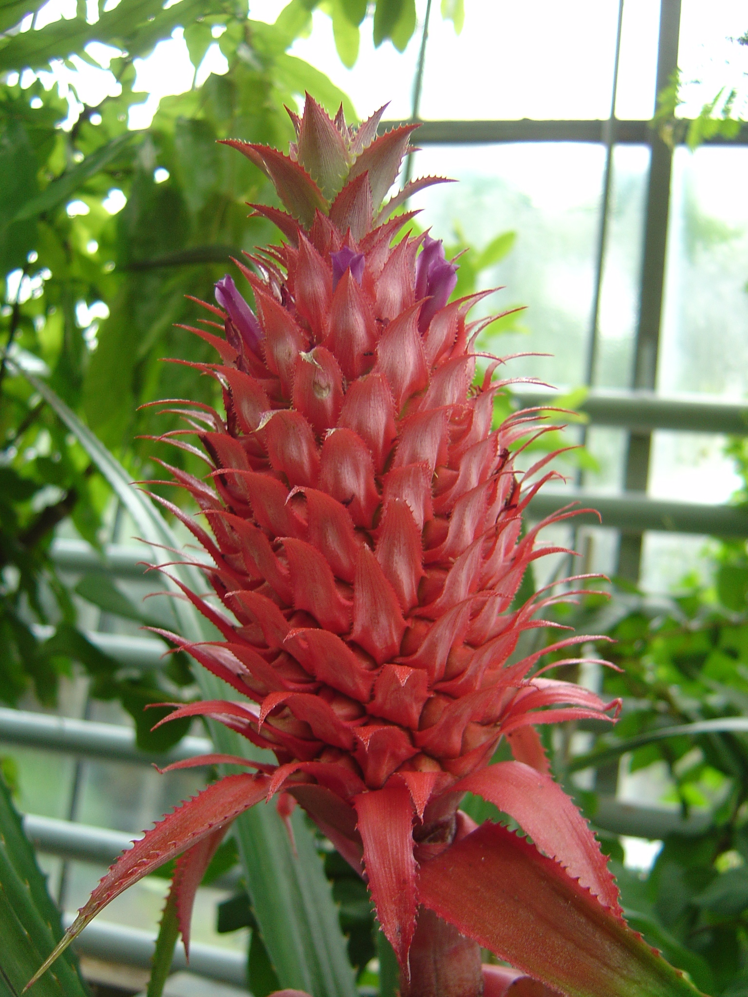 An Ananas macrodontes E. Morren fruit growing in a greenhouse at the botanical gardens in Münster, Germany